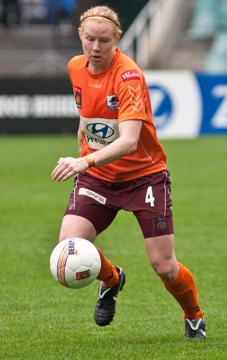 Clare Polkinghorne playing for the Brisbane Roar in the 2009 W-League.